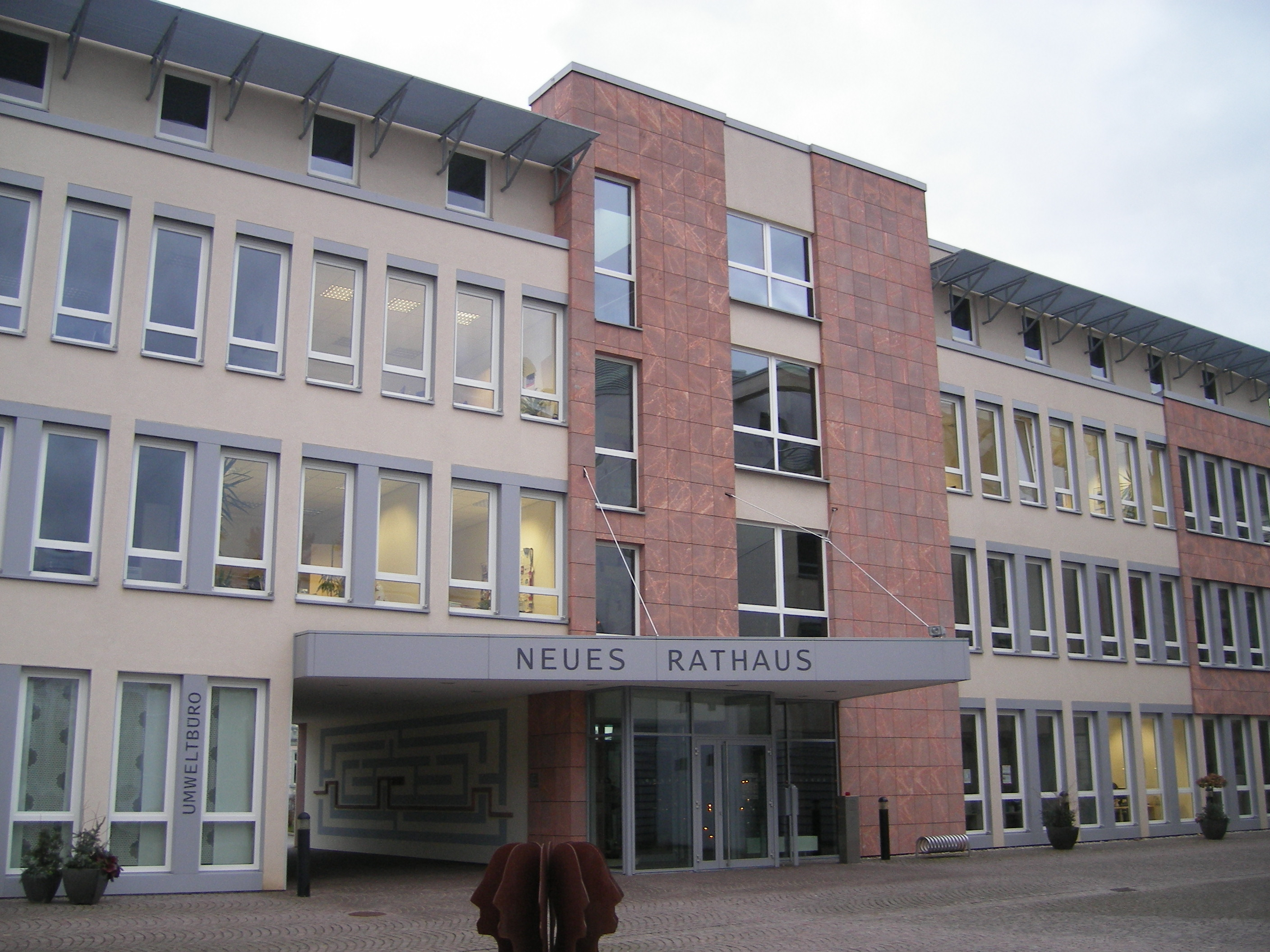 New town hall in Meerane near Zwickau/Saxony